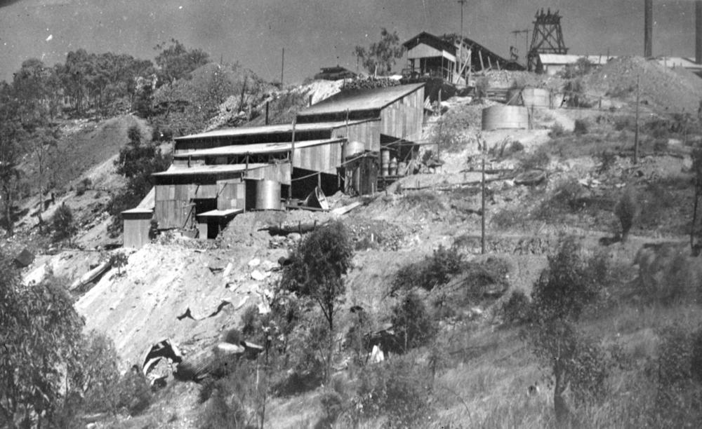 Tyrconnell gold mine battery, Hodgkinson goldfield, 1936 Tyrconnell is located between the former towns of Thornborough and Kingsborough. It is privately owned and is currently being preserved. (Description supplied with photograph.).